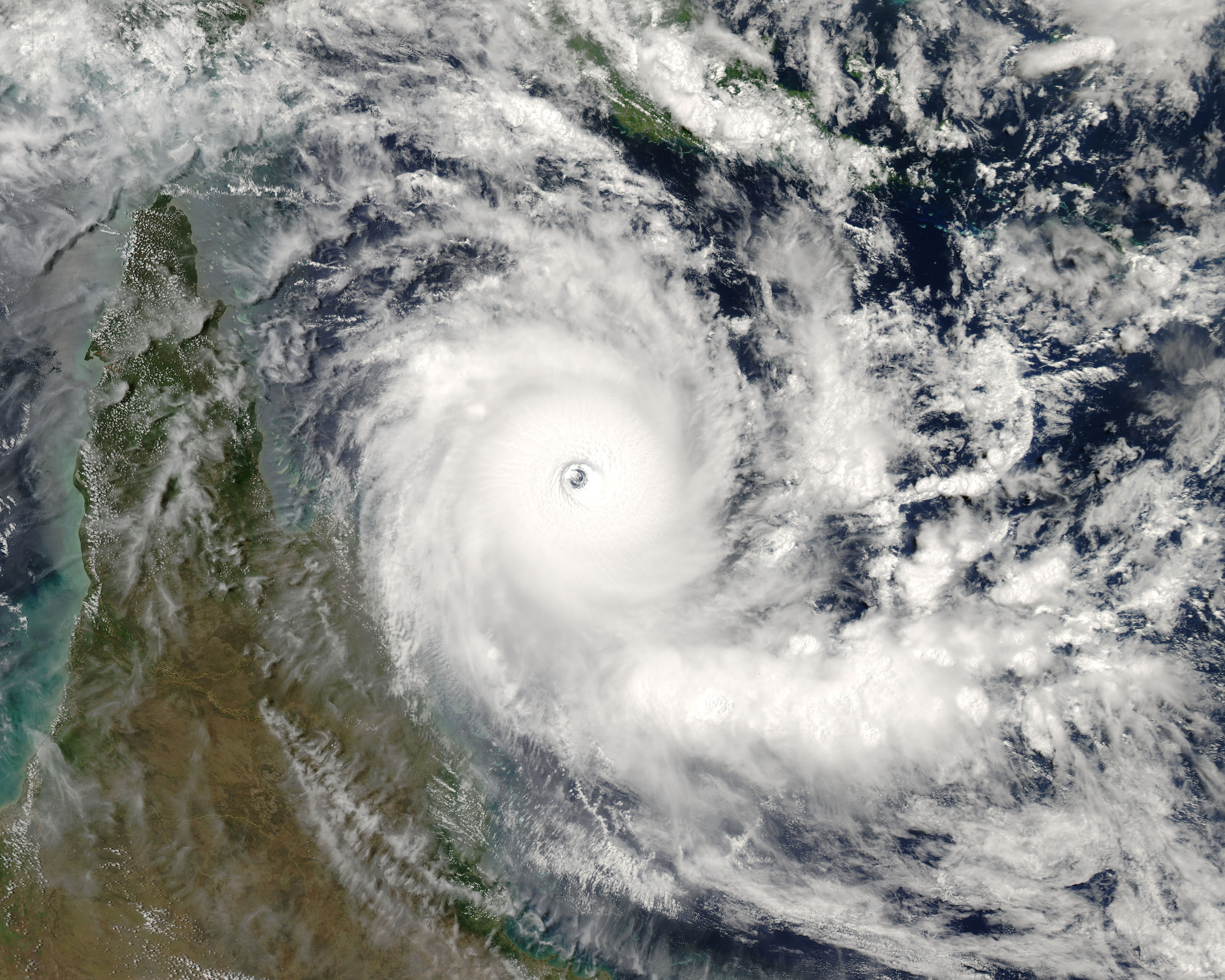 Cyclone Ingrid was just below a Category 5 status when the Moderate Resolution Imaging Spectroradiometer (MODIS) on NASA’s Aqua satellite captured this image on March 8, 2005. The storm is steadily bearing down on Australia’s Cape York Peninsula, where residents are under a cyclone warning. Storms of this magnitude are unusual in the Coral Sea, according to the Australian Bureau of Meteorology; the last storm of this size to strike northern Queensland came ashore in 1918. Ingrid had winds of 240 kilometers per hour (150 mph) with gusts to 296 kph (184 mph), and was moving west at 8 kilometers per hour (5 mph) when this image was taken. The image reveals Ingrid’s large, clear eye, through which dark ocean water is clearly visible. The storm is expected to move ashore early on March 9, local time.